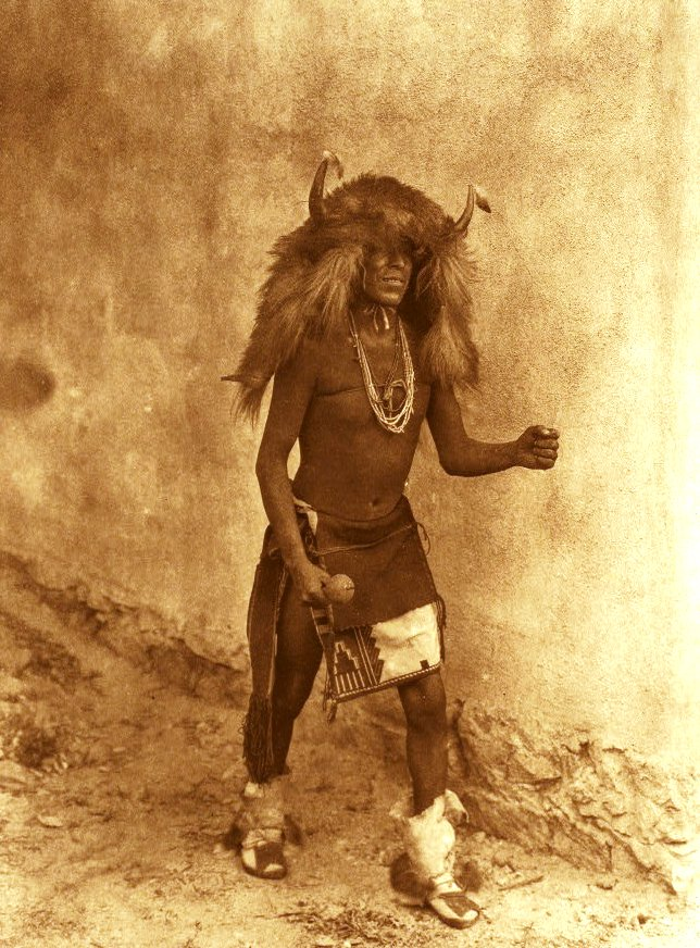 Sia [Zia] buffalo dancer (The North American Indian; v.16) CREATOR Curtis, Edward S., 1868-1952. SUMMARY Description by Edward S. Curtis: The Buffalo dance of the Keres is almost exactly the same as that of the Tewa. The performers are two young men with head-dresses of buffalo-hair and horns, and a girl wearing the usual female costume and a pair of small horns. The head of the hunters' society plays the part of guard. The dance is very strenuous, and the simulated actions of t he buffalo are quite realistic and readily comprehended by the spectator. NOTES 1 photogravure : brown ink ; 46 x 34 cm. Original photogravure produced in Norwood, Mass. by Plimpton Press, c1925. Original source: The Tiwa. The Keres. [portfolio] ; plate no. 560 Seattle : E.S. Curtis, 1926. "There are no known restrictions on publication or other forms of distribution of the photographs in this collection. The collection was acquired by the Library through copyright deposit and the copyright registrations expired and were not renewed. The images are now in the public domain." Library of Congress